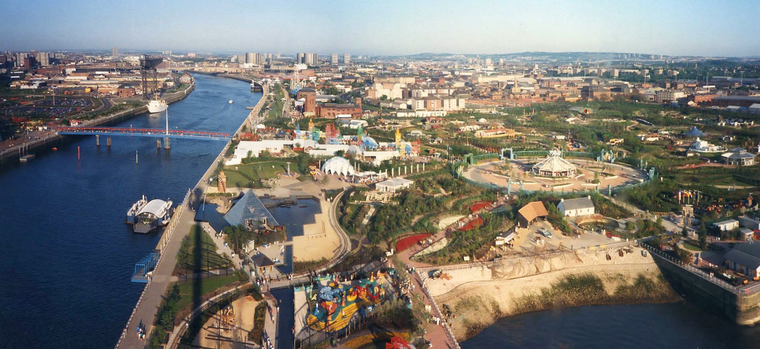 Panoramic image of the 1988 Glasgow Garden Festival site. (Composite of two source images stiched in Photoshop.)